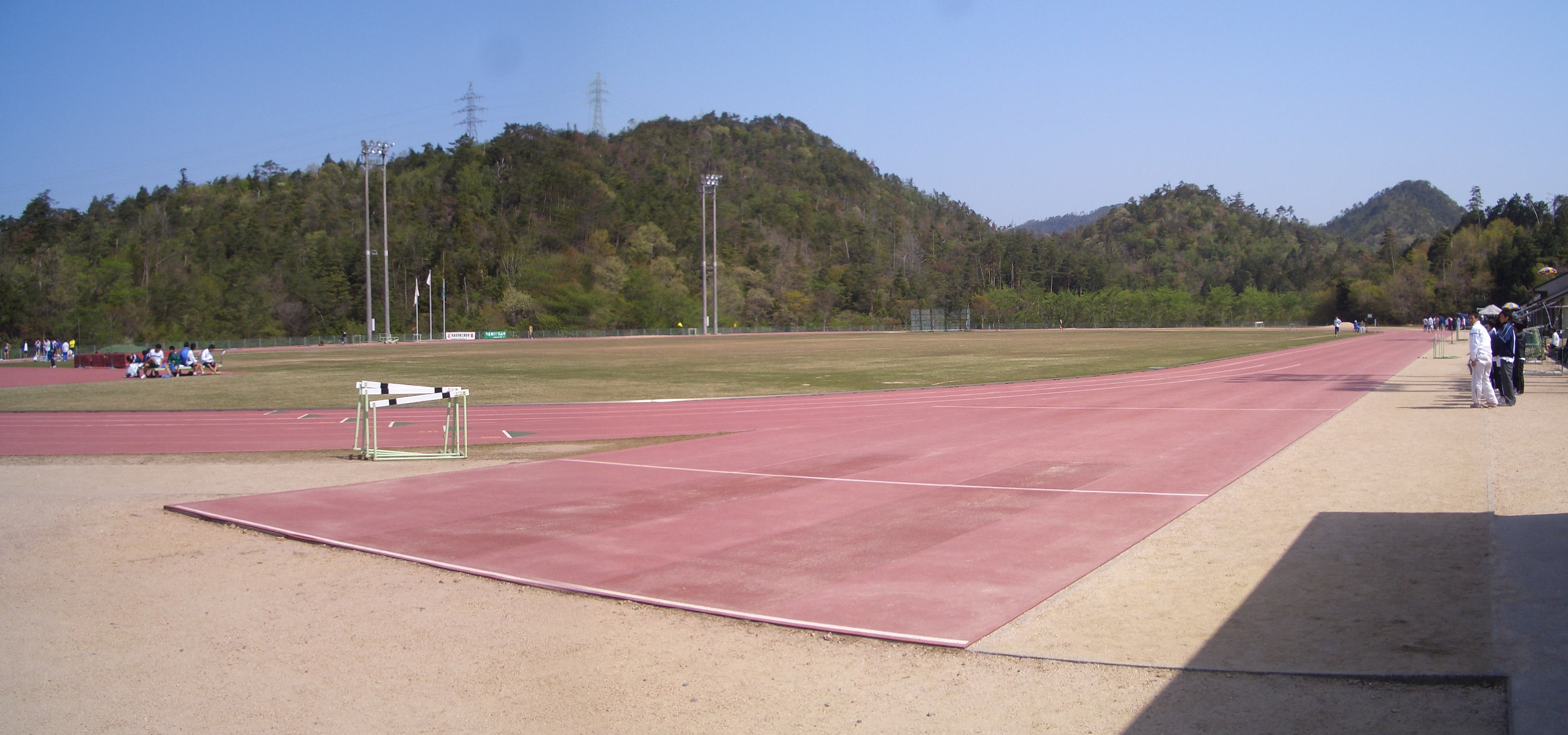 Kure-City SportsCenter Traning ground,Kure-City,Japan